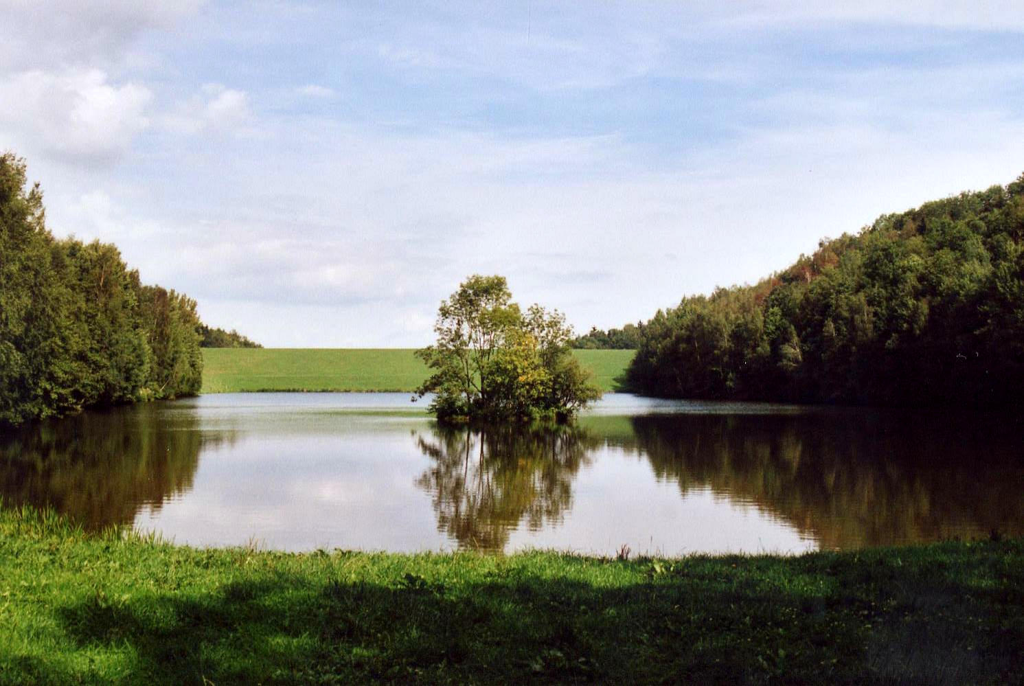 This image shows the detention basin "Mordgrundbach" (storage space 1,27 million m³) on the small Bahra-river in Saxony, Germany.